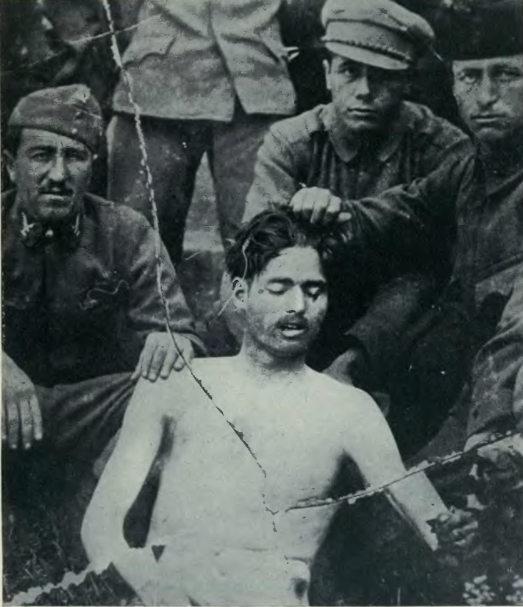 Red Terror victim, Hungary, Spring 1919. Original caption from book: "The Lenin boys pose for their photograph with their victim".